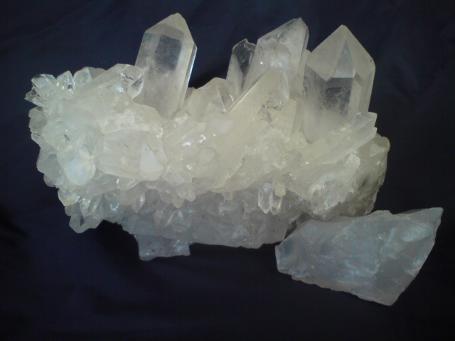 Quartz